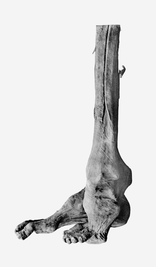 Siptah's feet-talipes of left foot.